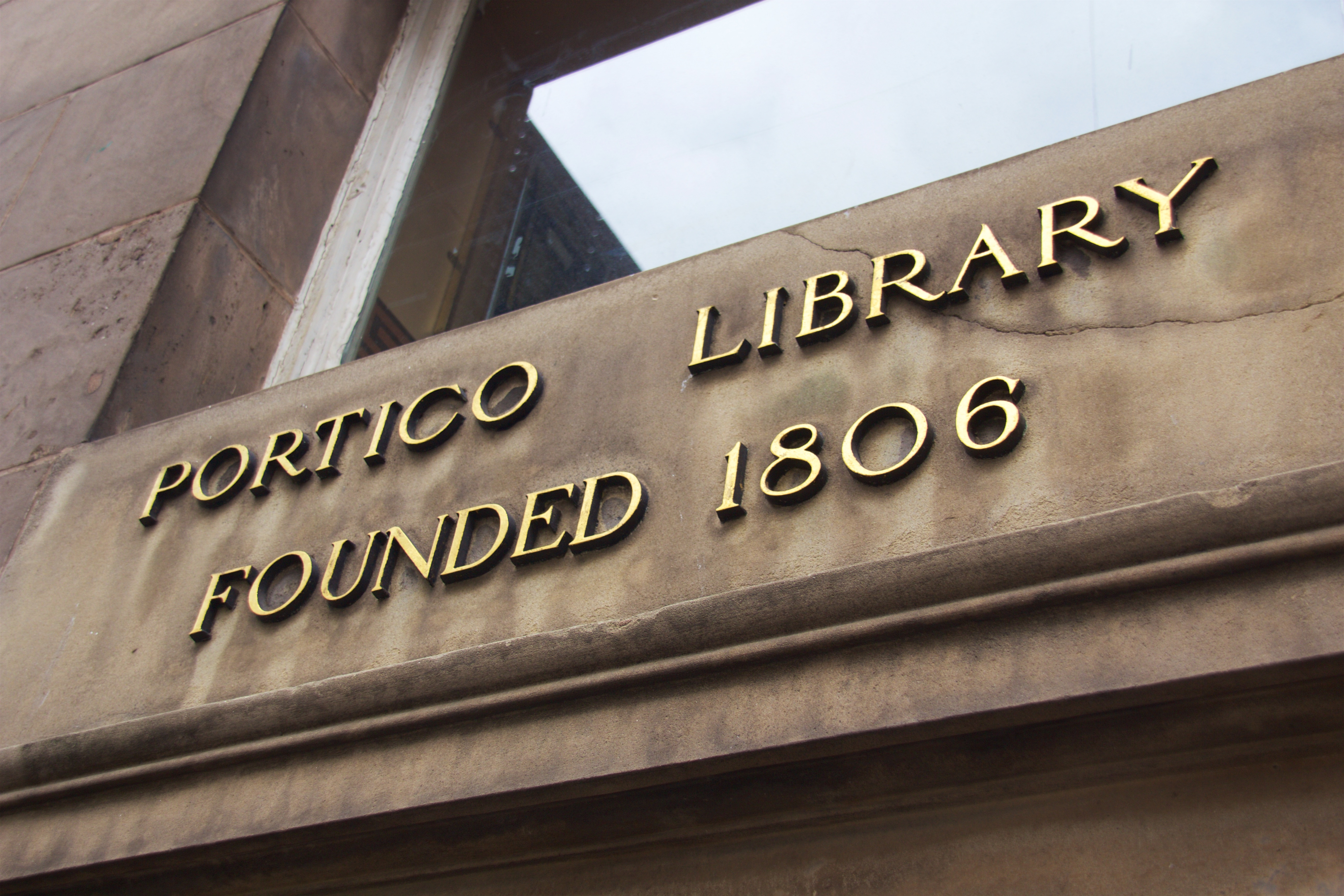 Portico Library, Manchester, United Kingdom.